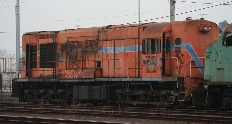 WAGN K class disel electric locomotive K201 in storage at the South Dynon locomotive depot in Victoria